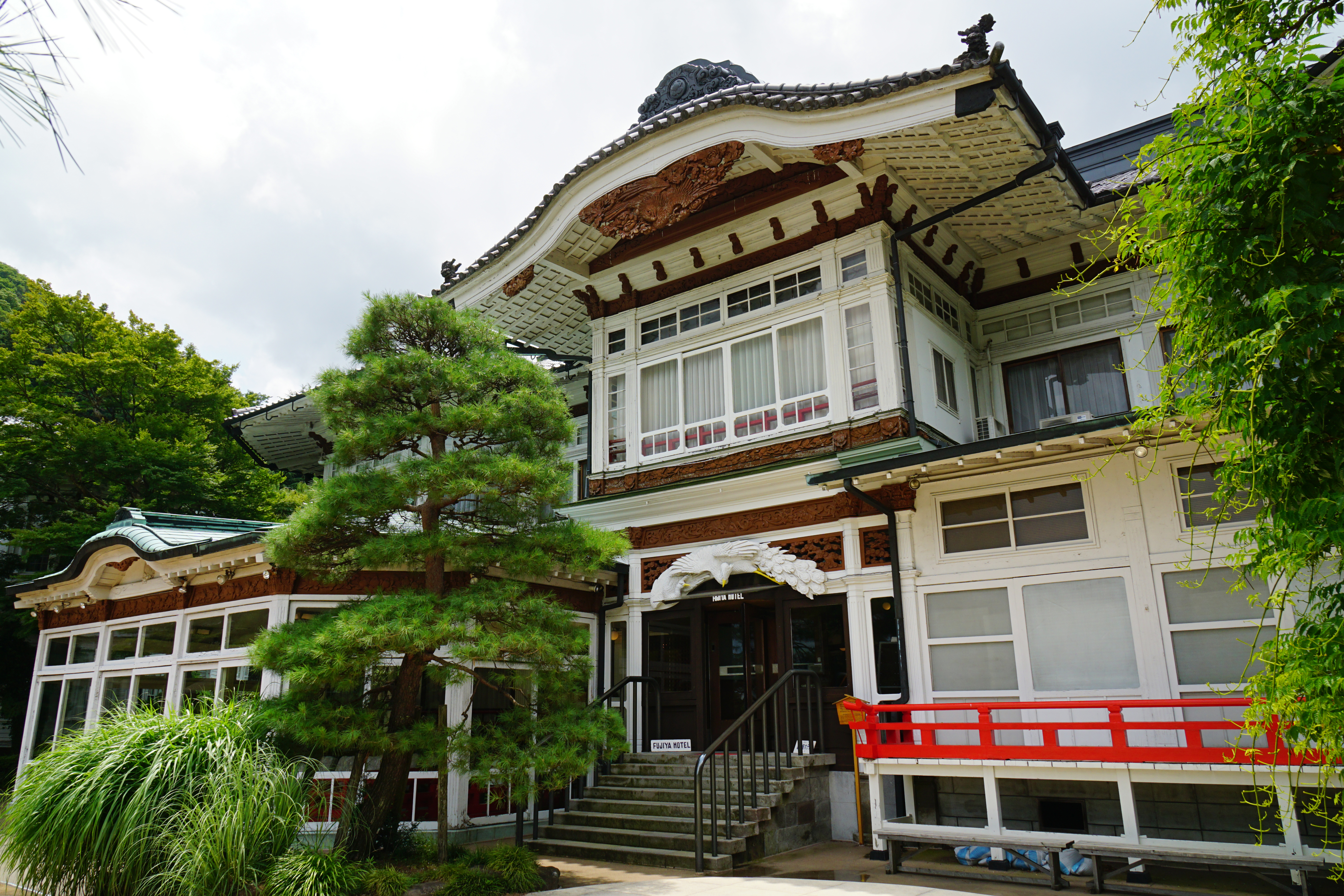 Fujiya Hotel in Hankone, Kanagawa prefecture, Japan